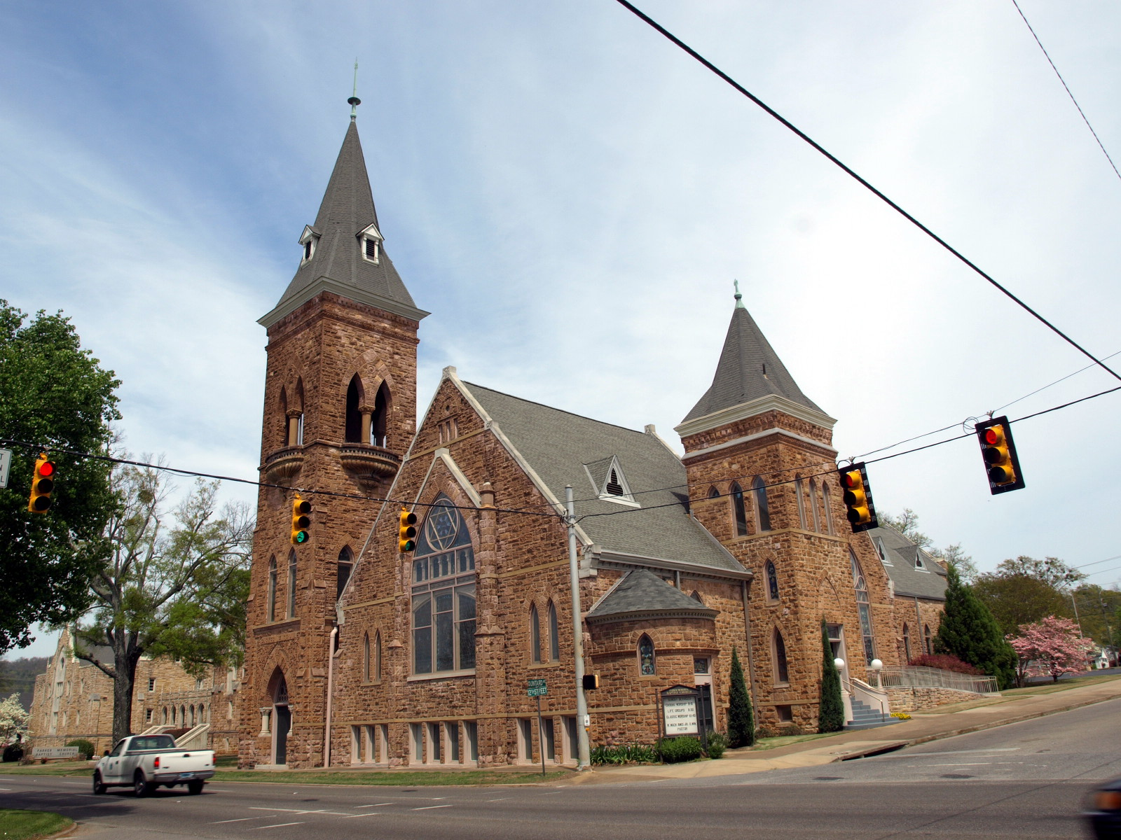 Parker Memorial Baptist Church in Anniston, Alabama, listed on the National Register of Historic Places